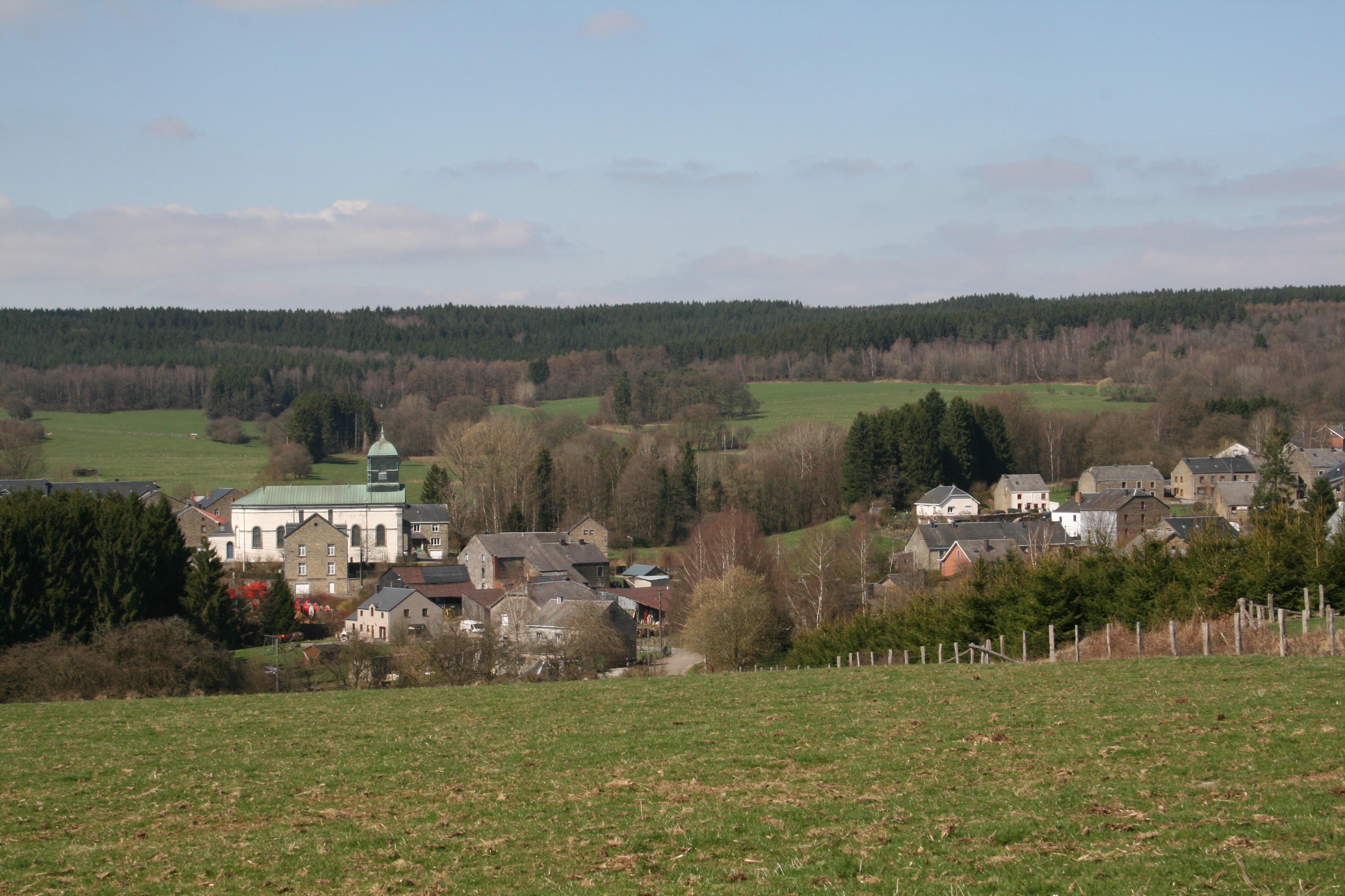 Arville (Saint-Hubert) (Belgium), rue de Wacomont - The village seen from the south.